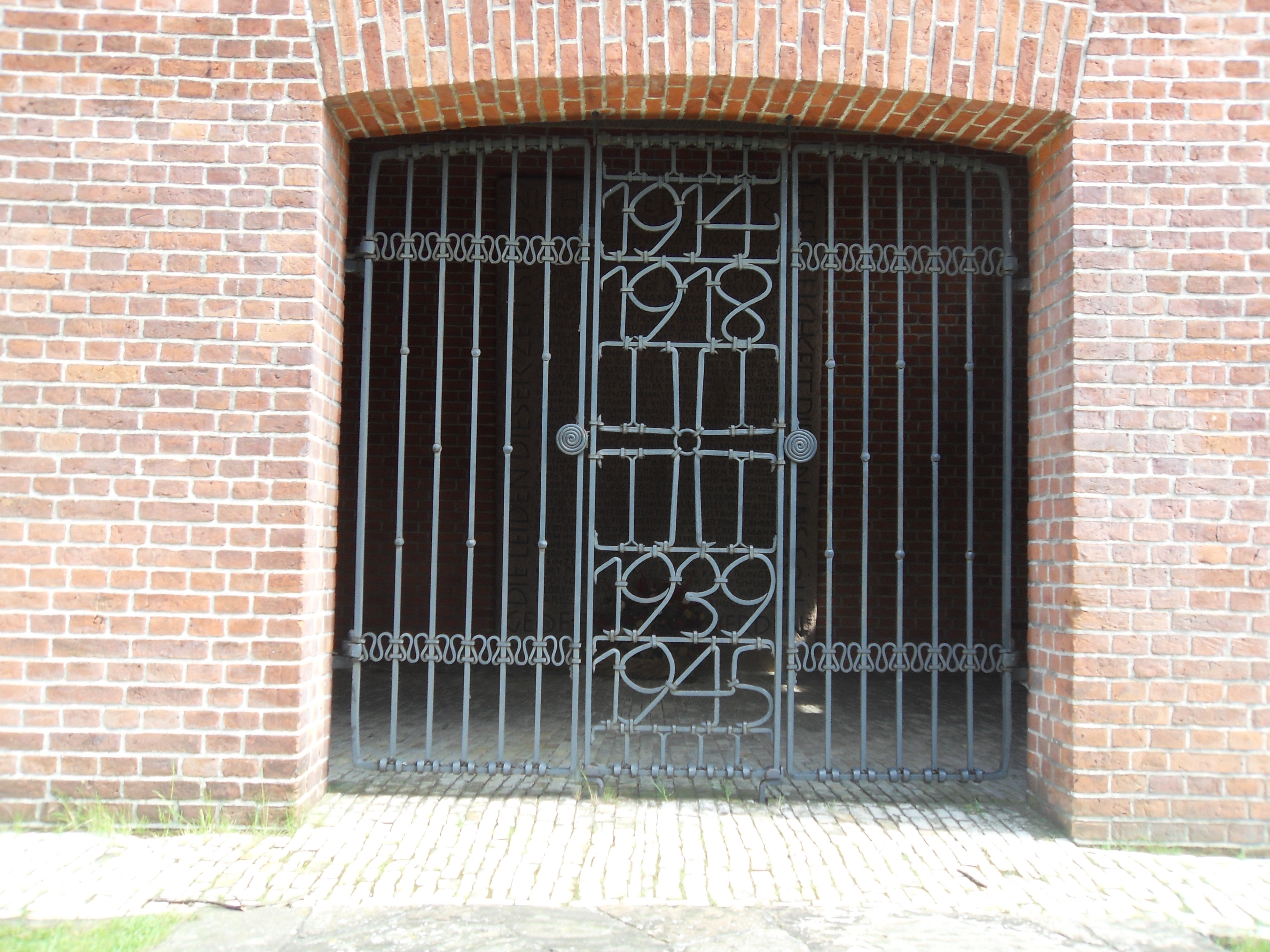 The memorial in the bottom of the church.